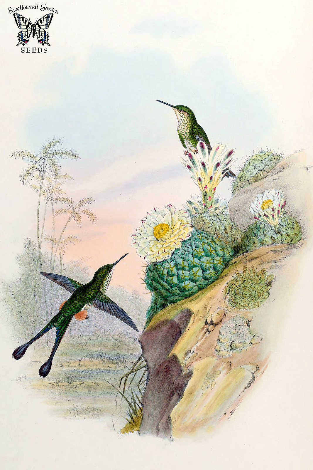 Gymnocalycium gibbosum. A monograph of the Trochilidæ, or family of humming-birds, vol. 3 (1861) [J. Gould & H.C. Richter]